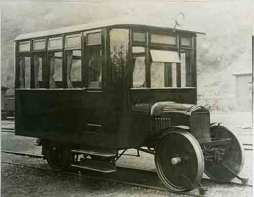 Model T railcar in NZ. Petrol driven .